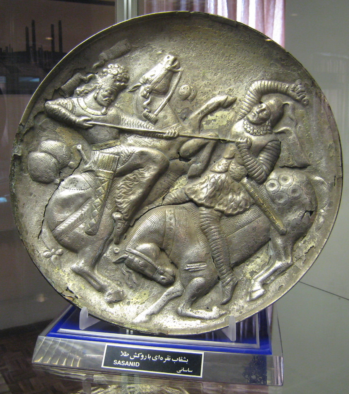 Probably fake Sassanid silver plate with gold coating {see discussion page}, Azerbaijan Museum , Tabriz , Iran .